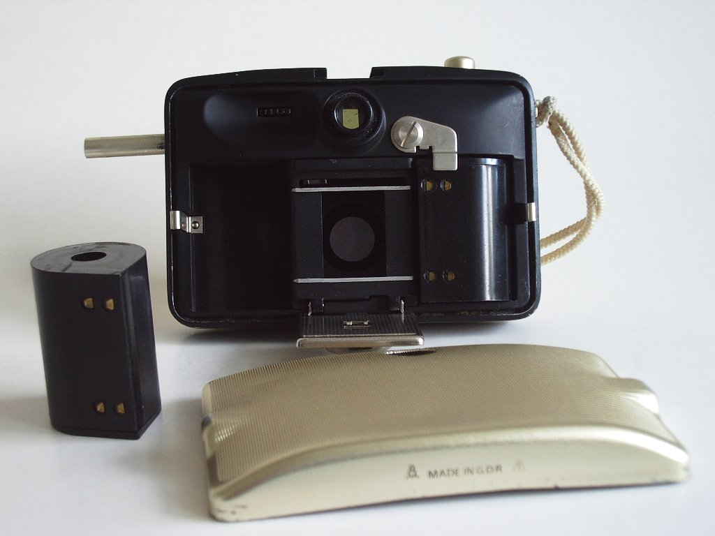 Pentacon Penti II. Back cover opened to show the film loading system (compatible with Agfa Rapid). Made in former German Democratic Republic (G.D.R.).